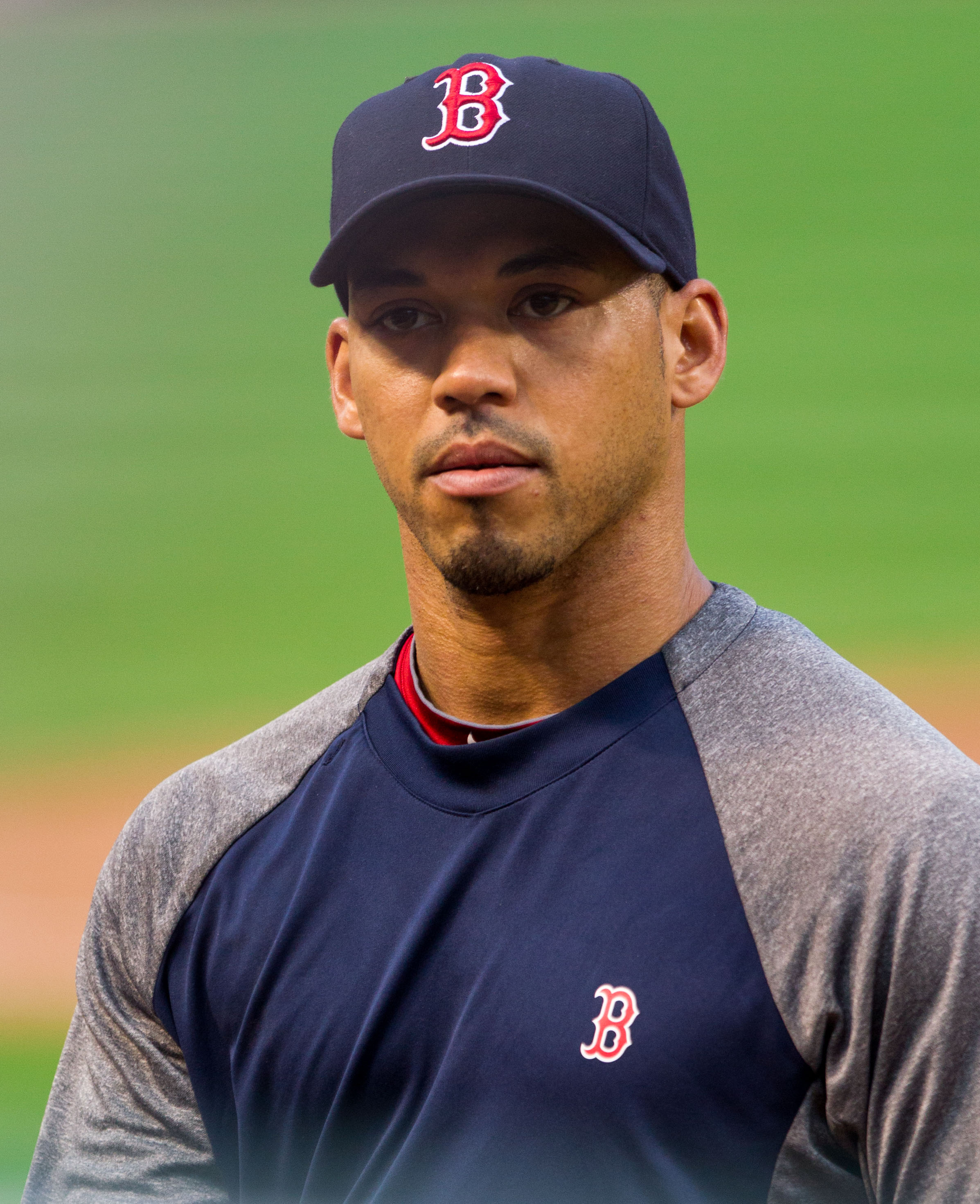 Boston Red Sox at Baltimore Orioles September 28, 2012